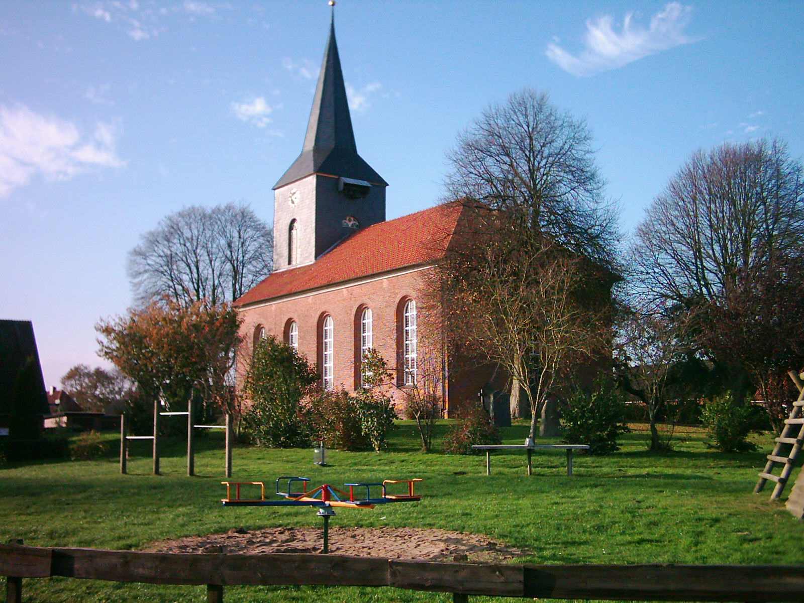 St.Andreas-Church of Geversdorf, Lower Saxony, Germany.